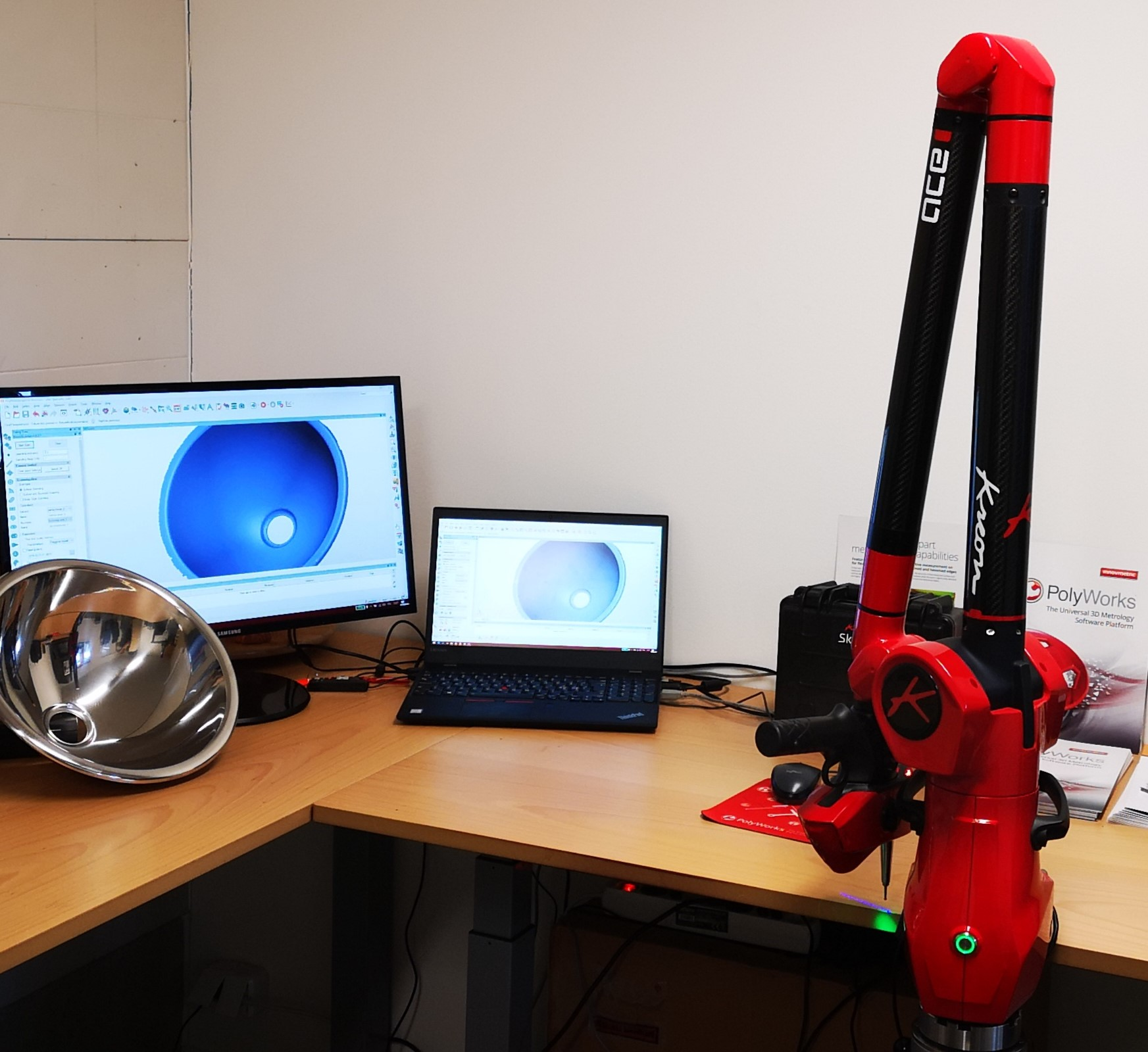 7-axis measurement arm with a laser scanner attached